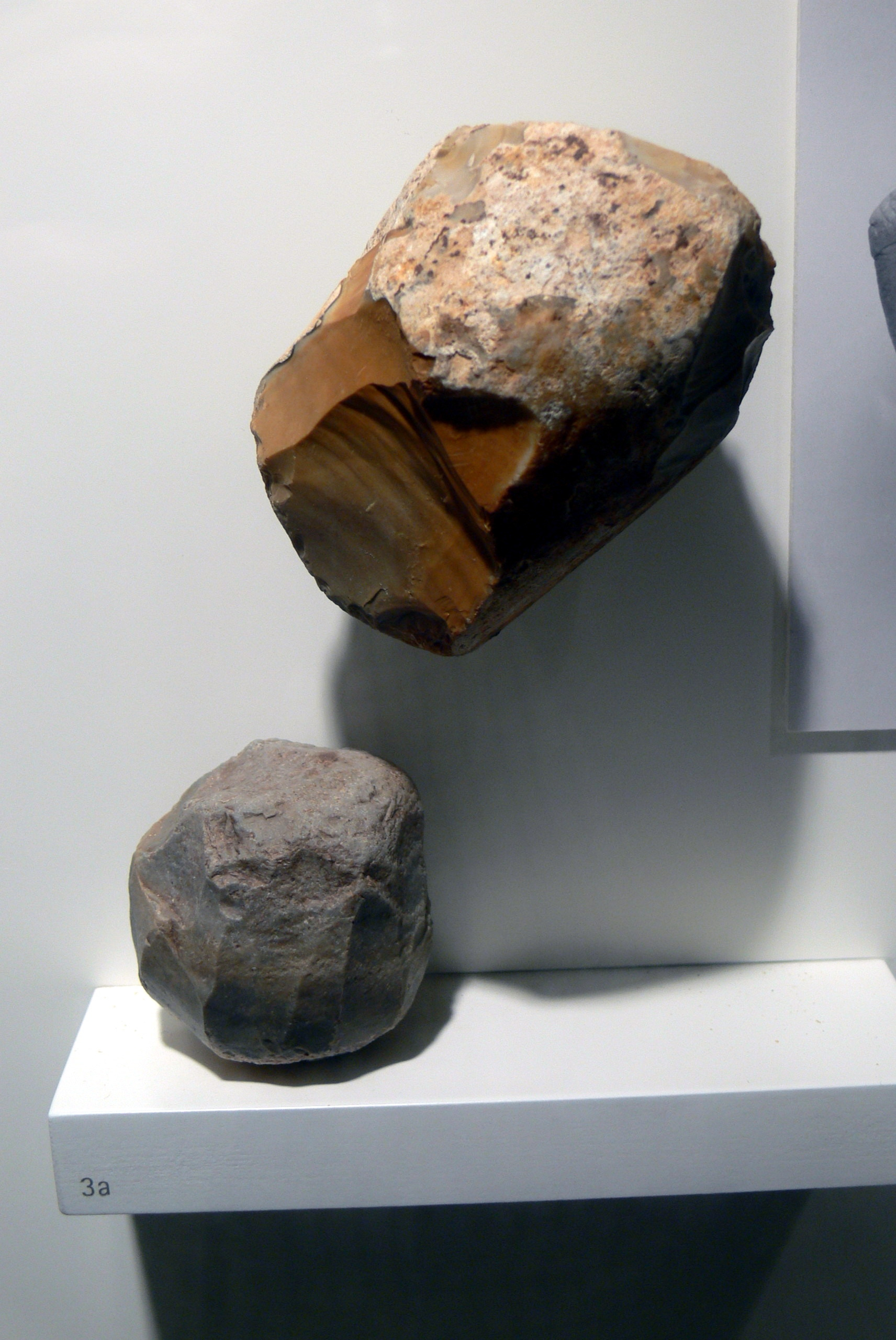 Archaeological museum Gunzenhausen ( Bavaria ). Mesolithic tools.